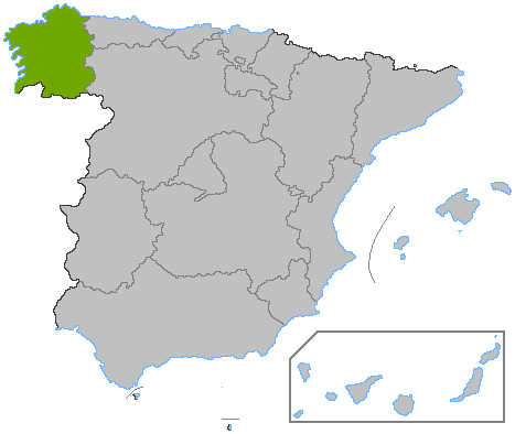 Location of Galicia, in Spain. Basado en: ProvPont.jpg Source: Designed by Satesclop. Original picture, designed by Sobreira.